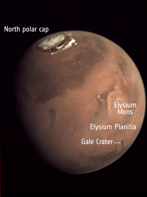 Labelled view of Mars highlighting Elysium Planitia, the landing site for NASA's InSight. The image was taken on 29 February 2016 by the Visual Monitoring Camera onboard ESA's Mars Express.